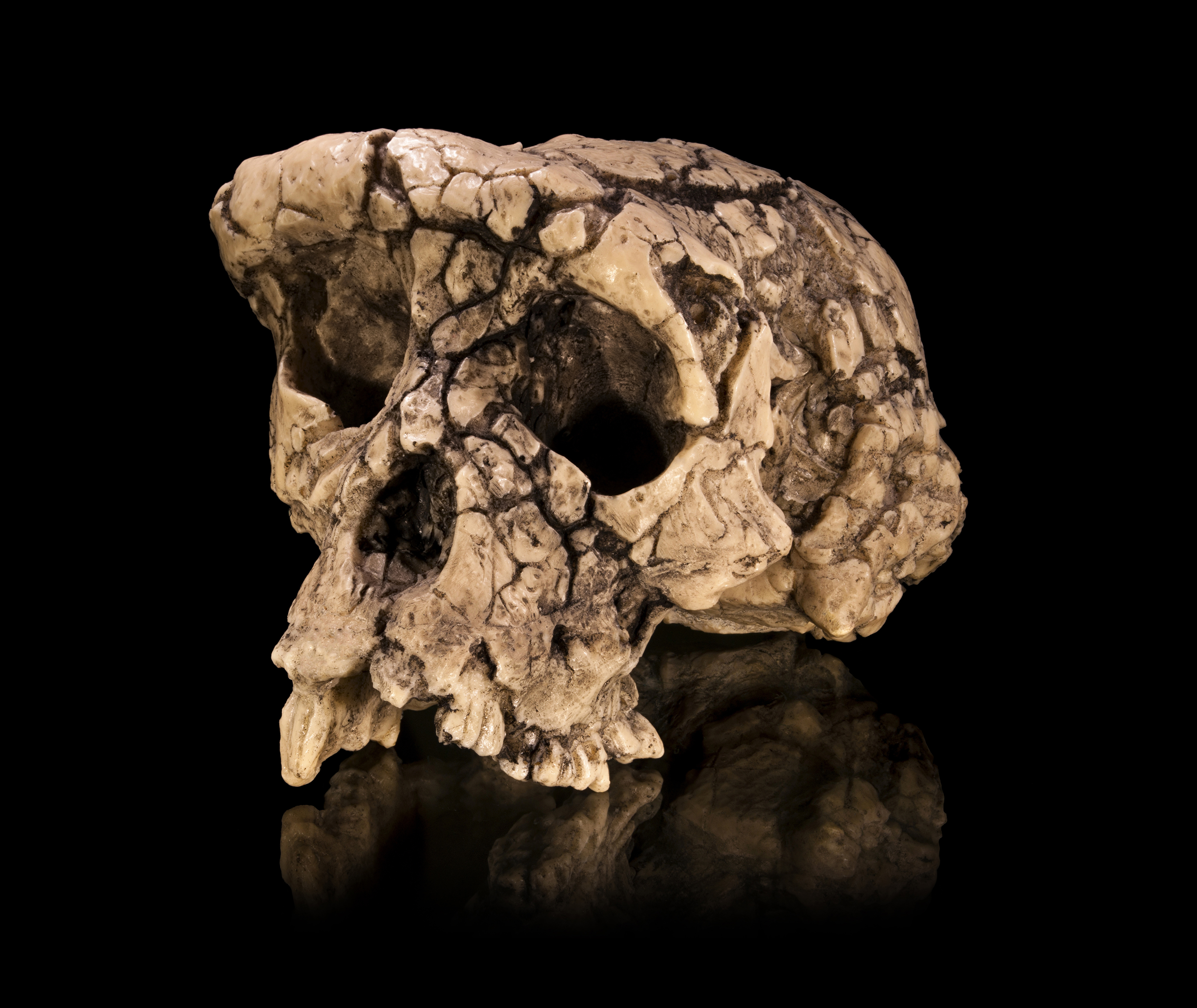 Cast of the Sahelanthropus tchadensis holotype cranium TM 266-01-060-1, dubbed Toumaï, in facio-lateral view. Specimen of of Anthropology Molecular and Imaging Synthesis of Toulouse. Size 182,5x105x97 mm